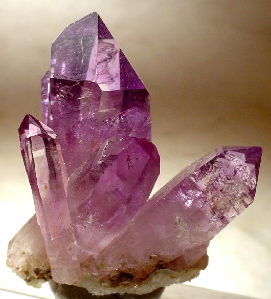 Quartz (Var.: Amethyst) Locality: Municipio Las Vigas de Ramírez (Municipio de Profesor Rafael Ramírez), Veracruz, Mexico (Locality at ) A SUPERB and AESTHETIC cluster of transparent amethyst quartz crystals from Las Vigas, Mexico. Clusters of this quality from Las Vigas are seldom available. One super trivial ding on the termination edge of the large crystal is barely noticeable and certainly does not impair this beautiful specimen. Old dealer stock of Dr. Gary Hansen and not shown since the early 1980s! 3.6 x 3.4 x 2.7 cm